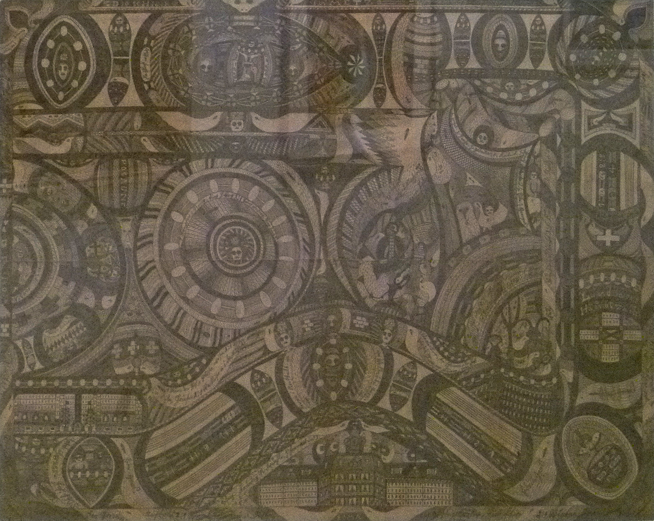 "Hotel Berner-Hof" (1905); graphite pencil on paper by Adolf Wölfli (1864-1930); outsider art ; Lille métropole : musée d'art moderne,d'art contemporain et d'art brut; Villeneuve d'Asq, France